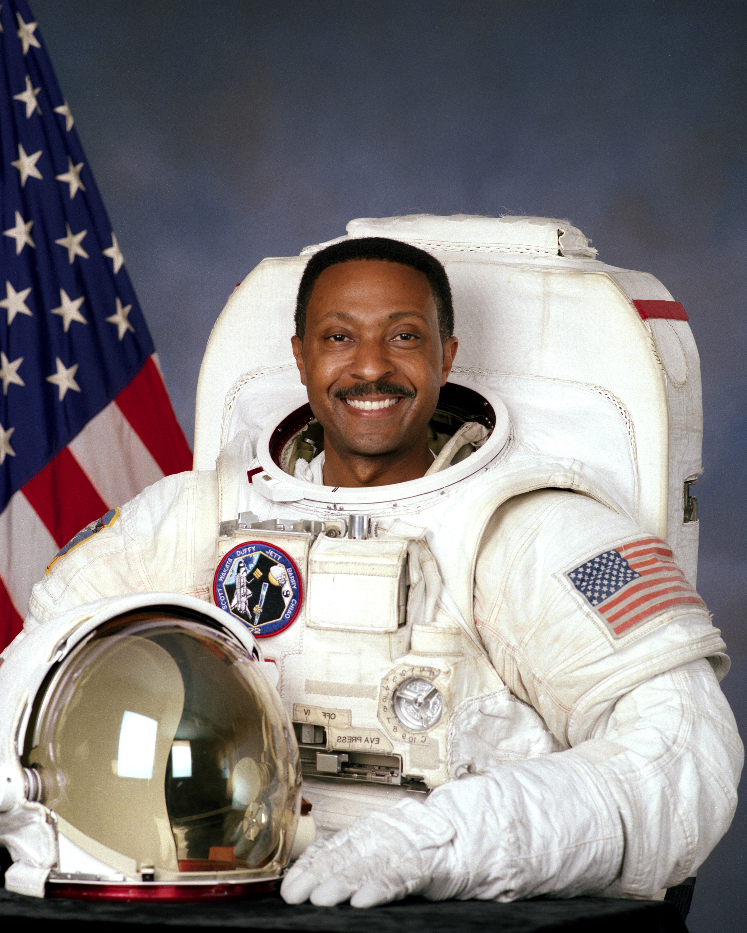 NASA photograph of astronaut Winston Scott